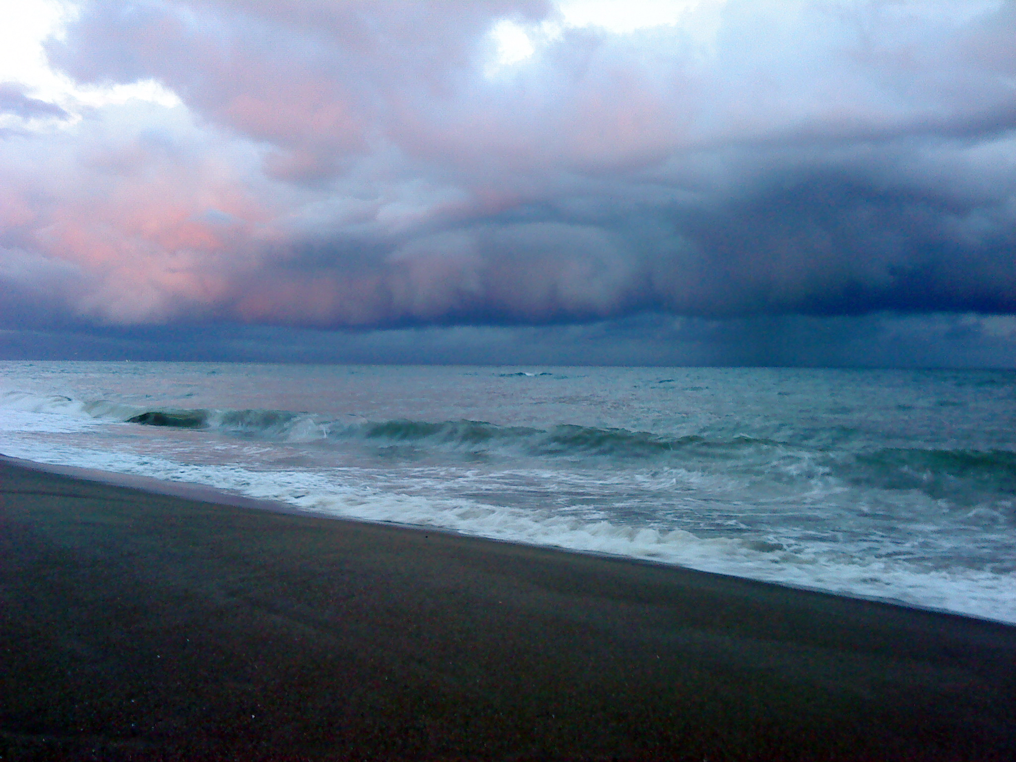 Beach at Torremolinos in December 2009